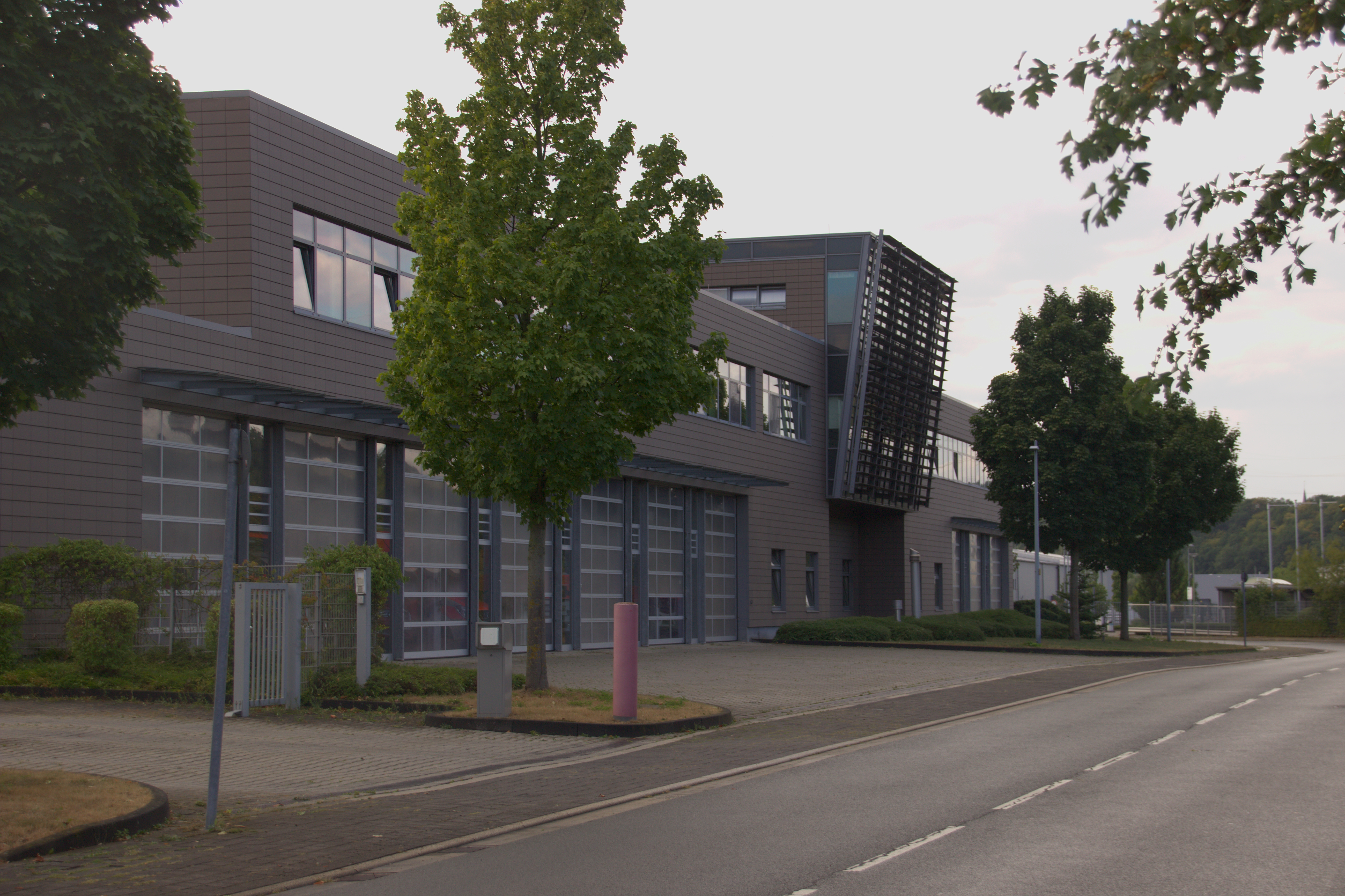 Exit of the 2nd firedepartment in Hagen (Westfalen) / Germany